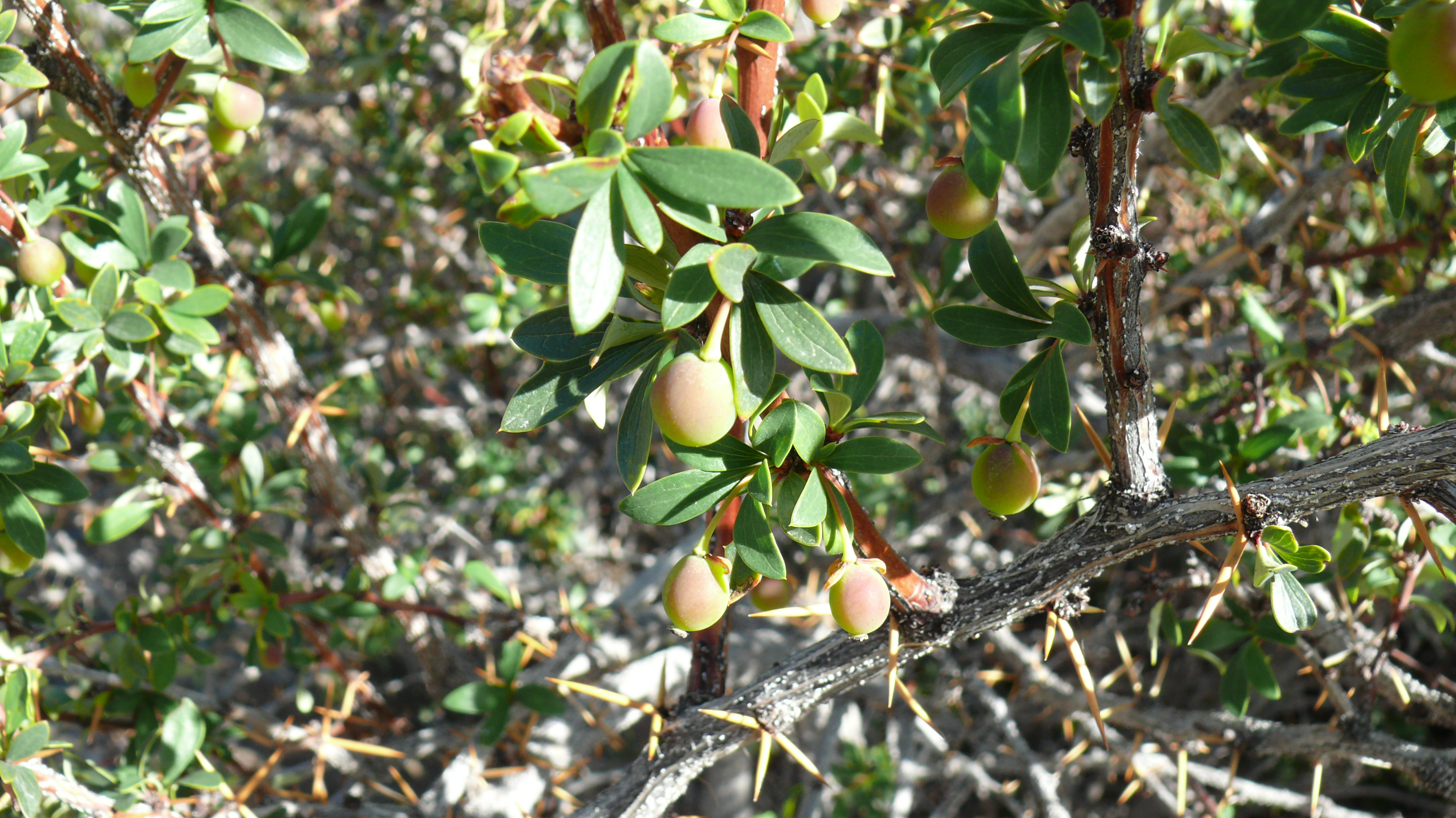 Calafate (Berberis buxifolia =Berberis microphylla), fruits on spring time, El Calafate (Argentina)